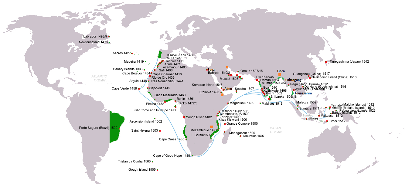 Areas of settlements , factorys and discoverys of the Portuguese